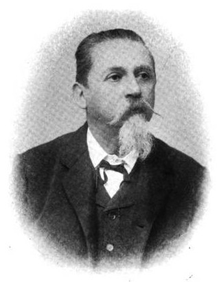 Photograph of Pietro Tacchini, the astronomer